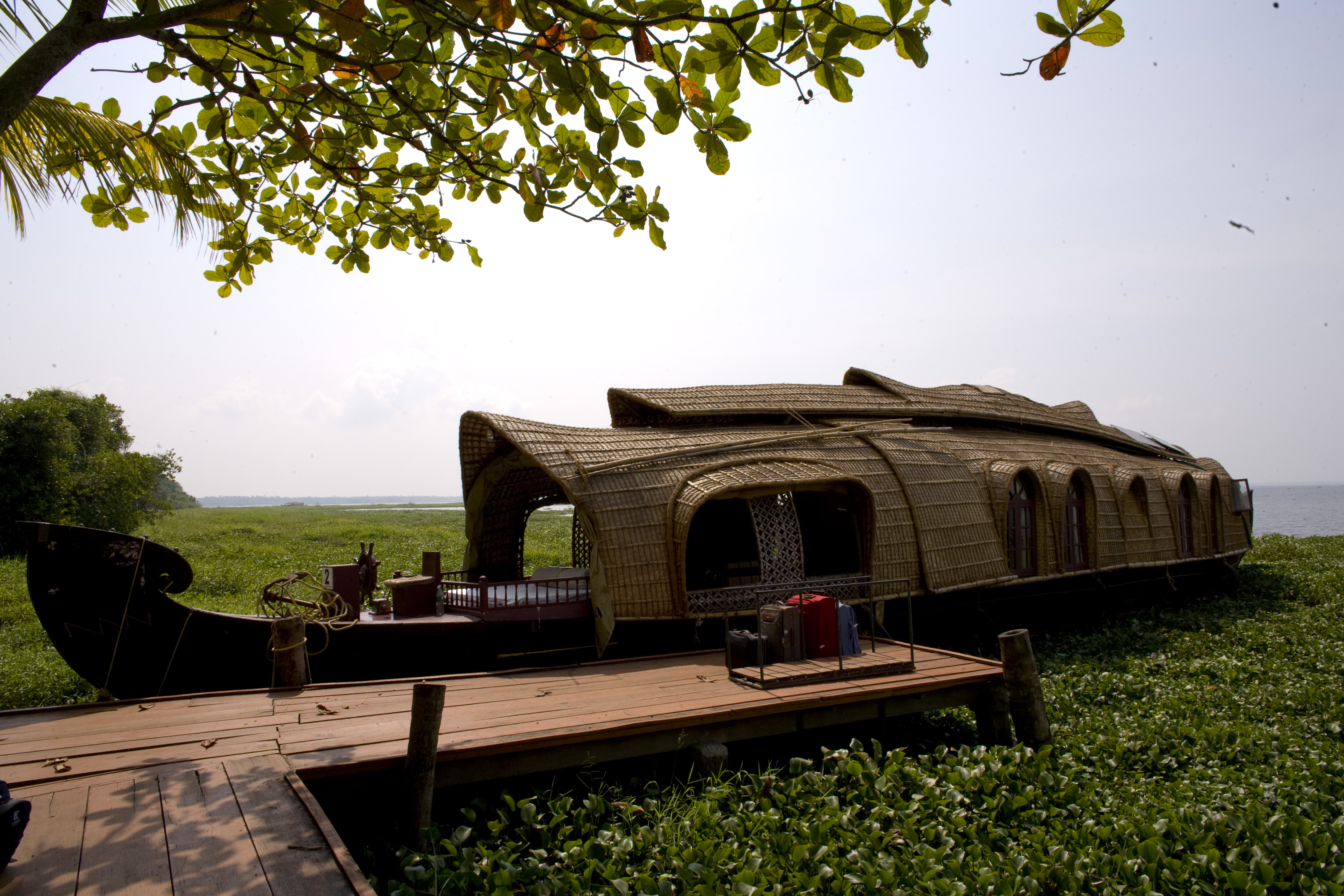 Houseboat on Backwaters (Kochi)